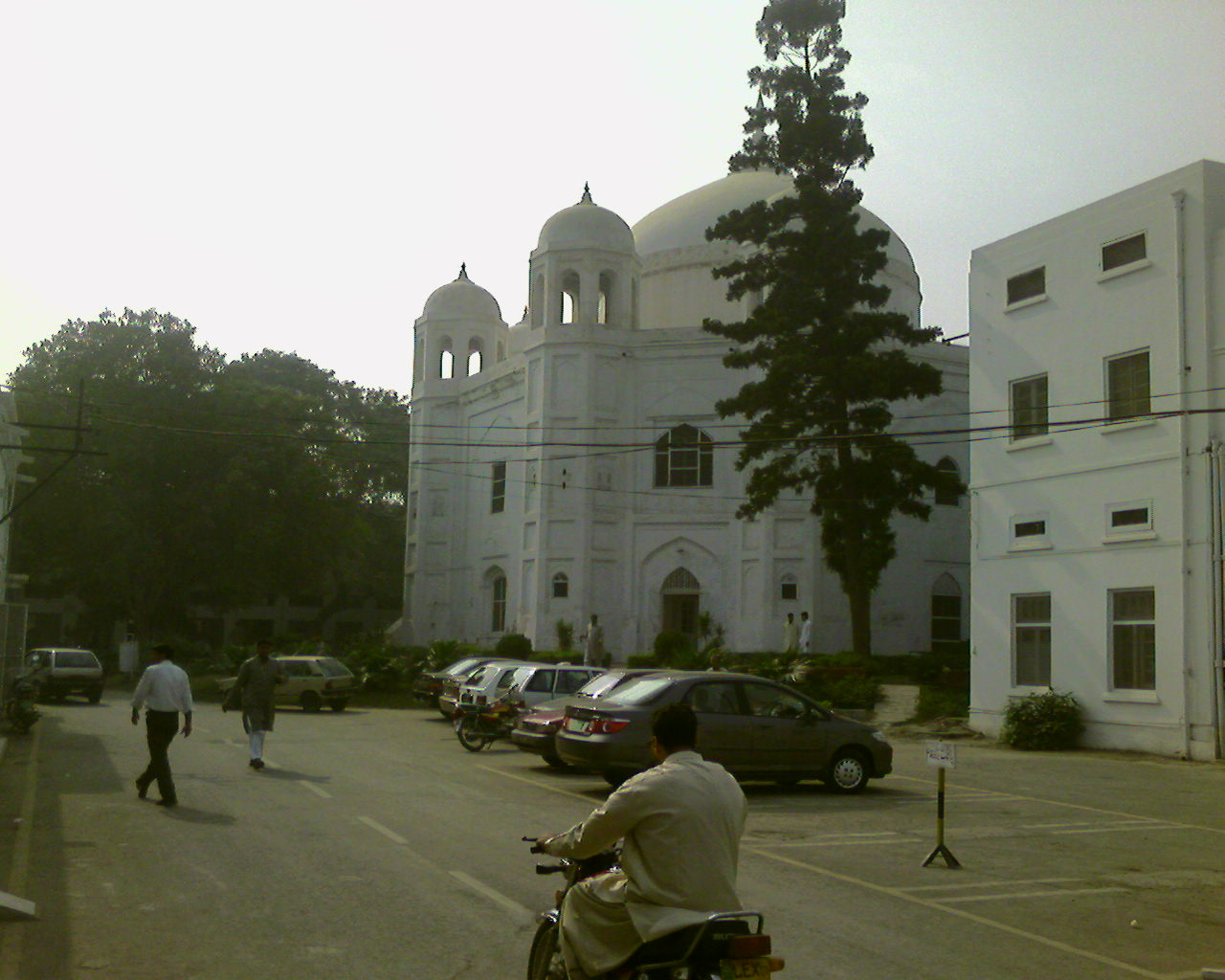 Anarkali tomb, view from outside.